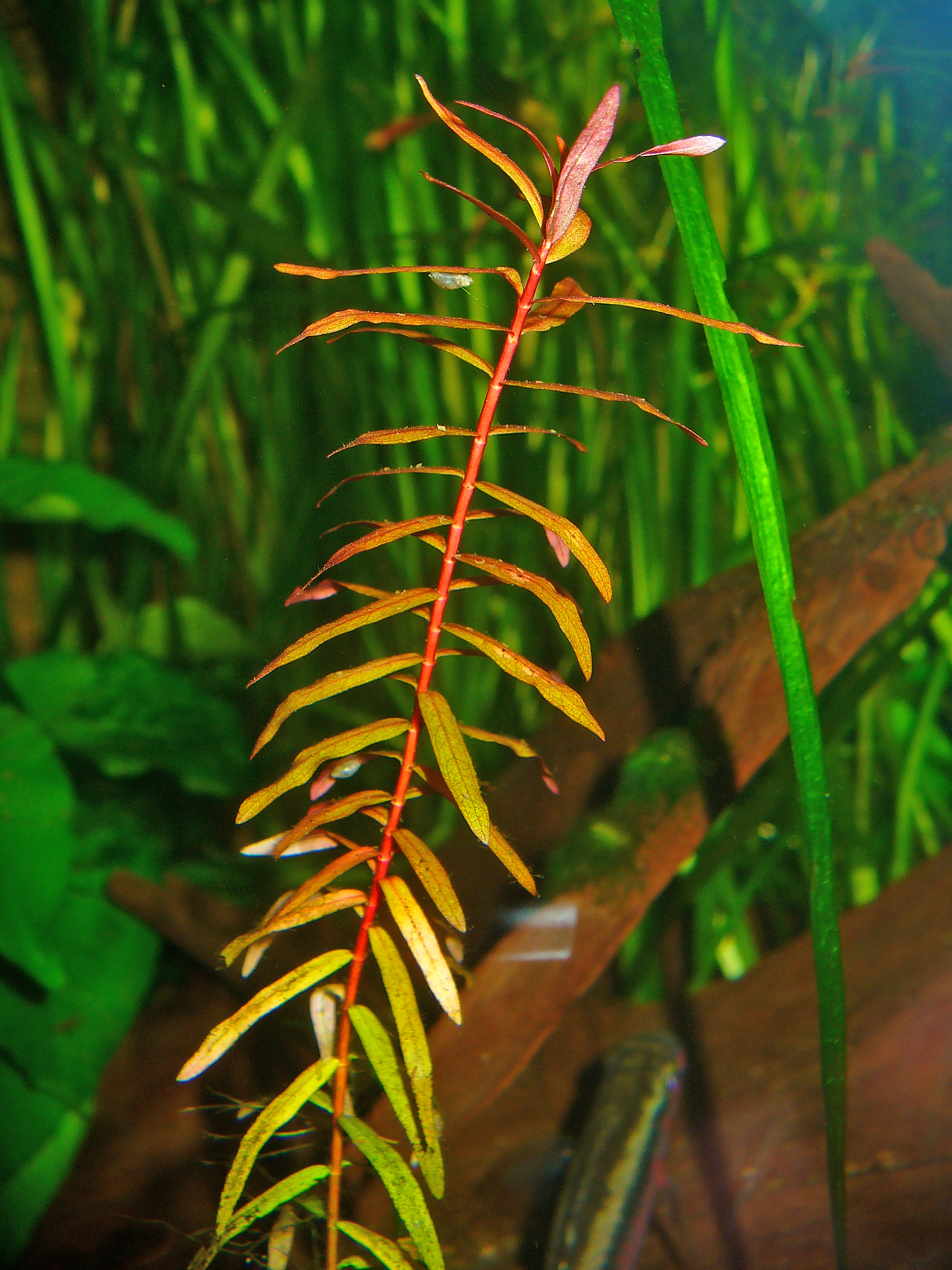 Ammannia senegalensis, Lythraceae, Red Ammannia, habitus; Botanic Garden Universiy Tübingen, Germany.